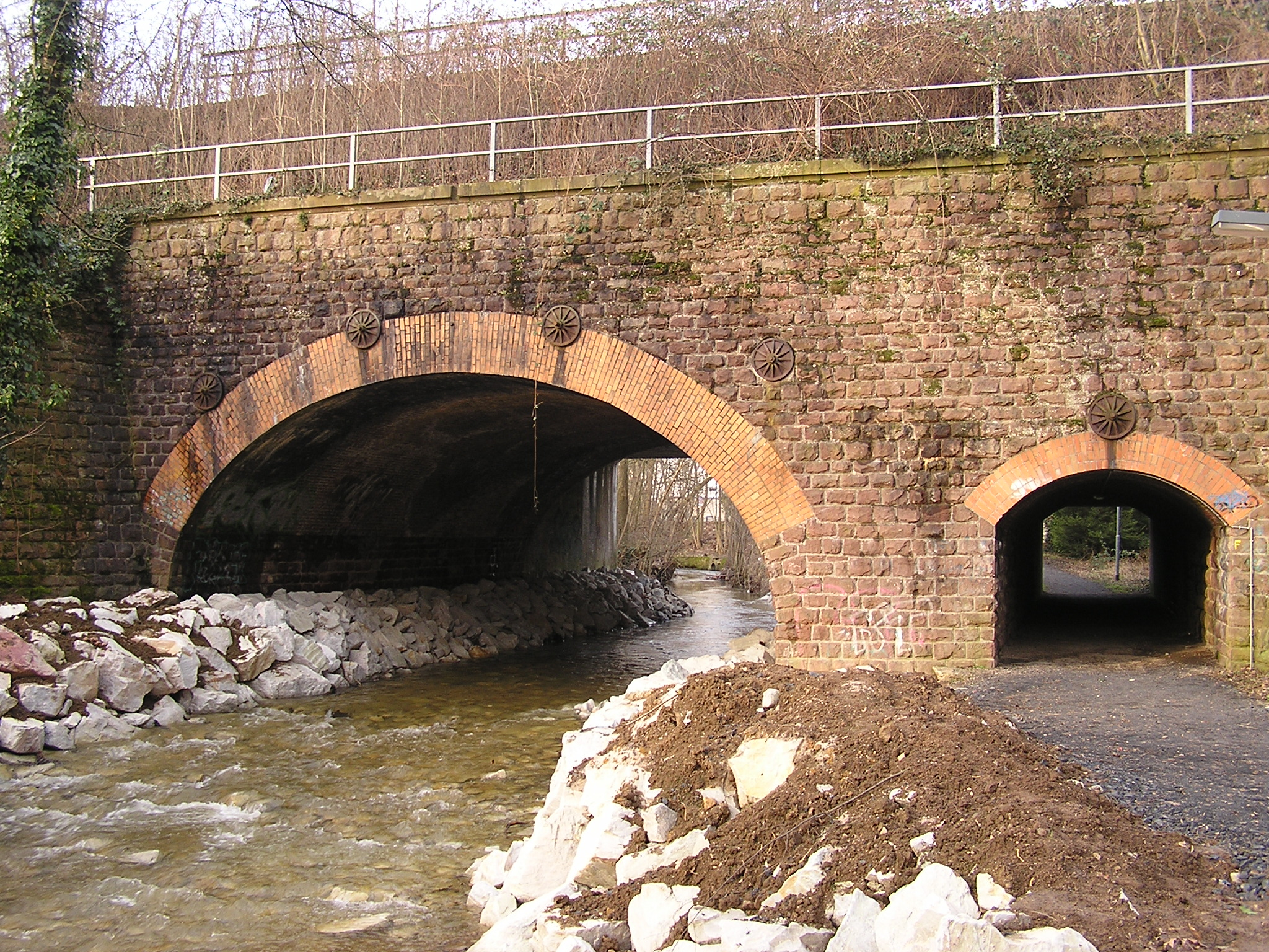 Bridge of the Friedrichsdorf–Friedberg Railway line over the Erlenbach and a footpath in Burgholzhausen, built in 1897 with a natural stone front and brick vaults, southern view, on the north later extended by a concrete bridge with steel girders while adding a second track on the top. State after renaturation of the Erlenbach with Taunus quarzite blocks.